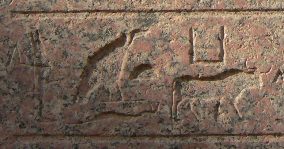 Min "Ka-Mut-ef". Hieroglyph text on a wall at Karnak Temple.